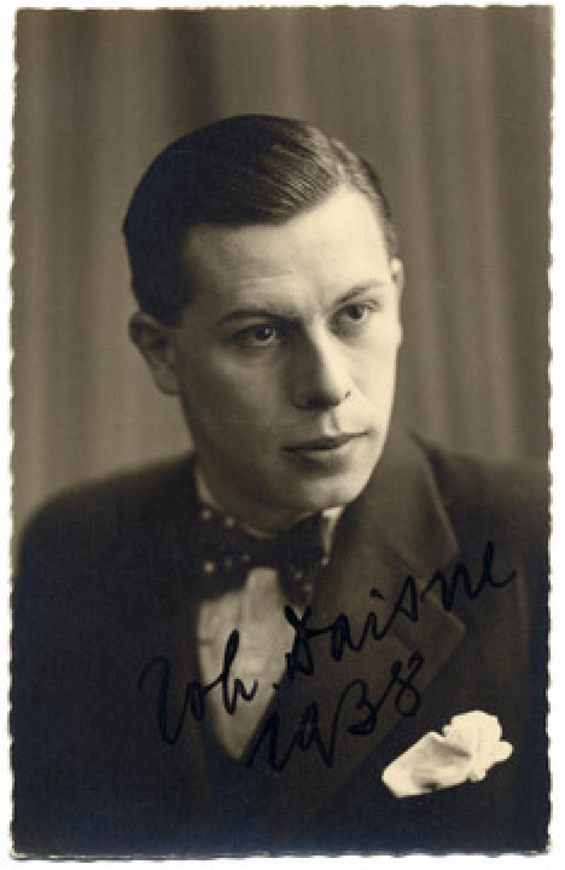 Belgian writer Johan Daisne. Signed postcard photograph